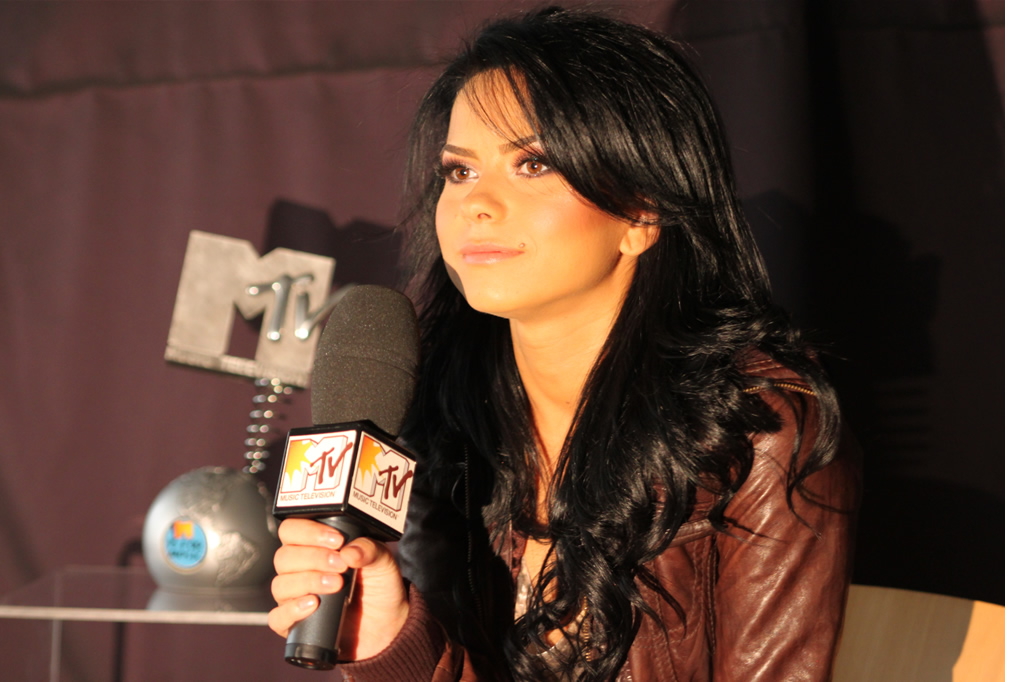 Inna, during an interview for MTV Europe (in September 2009)